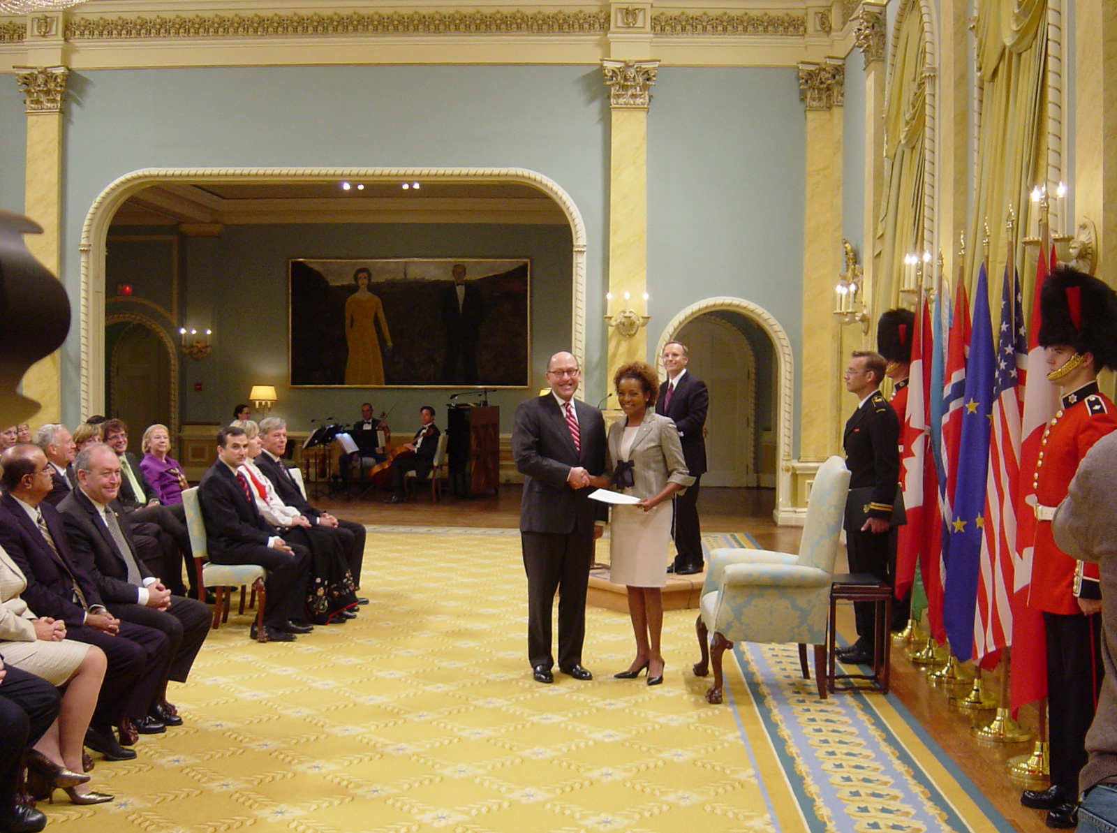 Canadian Governor-General Michaëlle Jean accepts US Ambassador David Jacobson's credentials at Rideau Hall, Ottawa, Ontario, Canada.